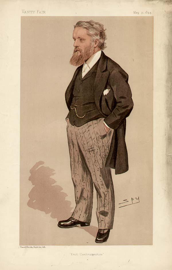 Caricature of Sir George Newnes. Caption read "East Cambridgeshire".